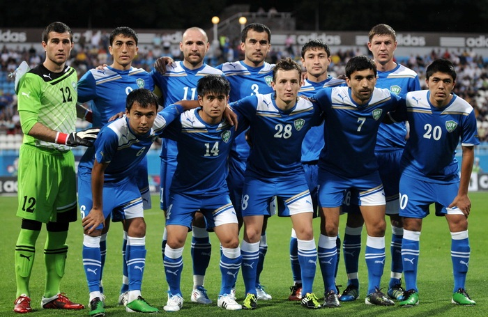 Uzbekistan national football team (Ukraine-Uzbekistan)